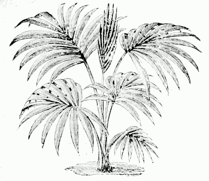 Figure from book